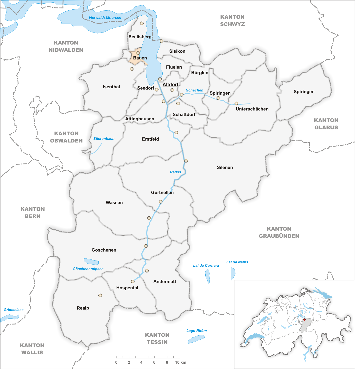 Municipality Bauen